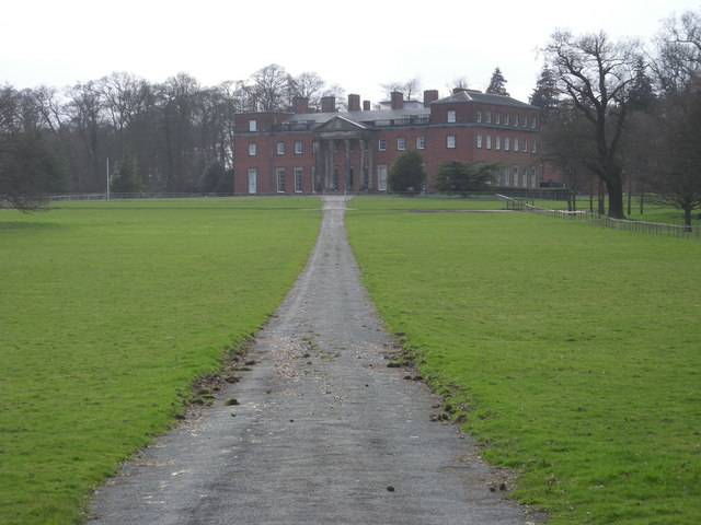 Chillington Hall is a Georgian country house near to Brewood, Staffordshire, four miles northwest of Wolverhampton, England. It is the residence of the Giffard family. The Grade I listed house was designed by Francis Smith in 1724 and John Soane in 1785. The park and lake were landscaped by Capability Brown.